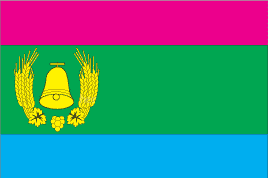 Flag of Beryslavskyj rajon